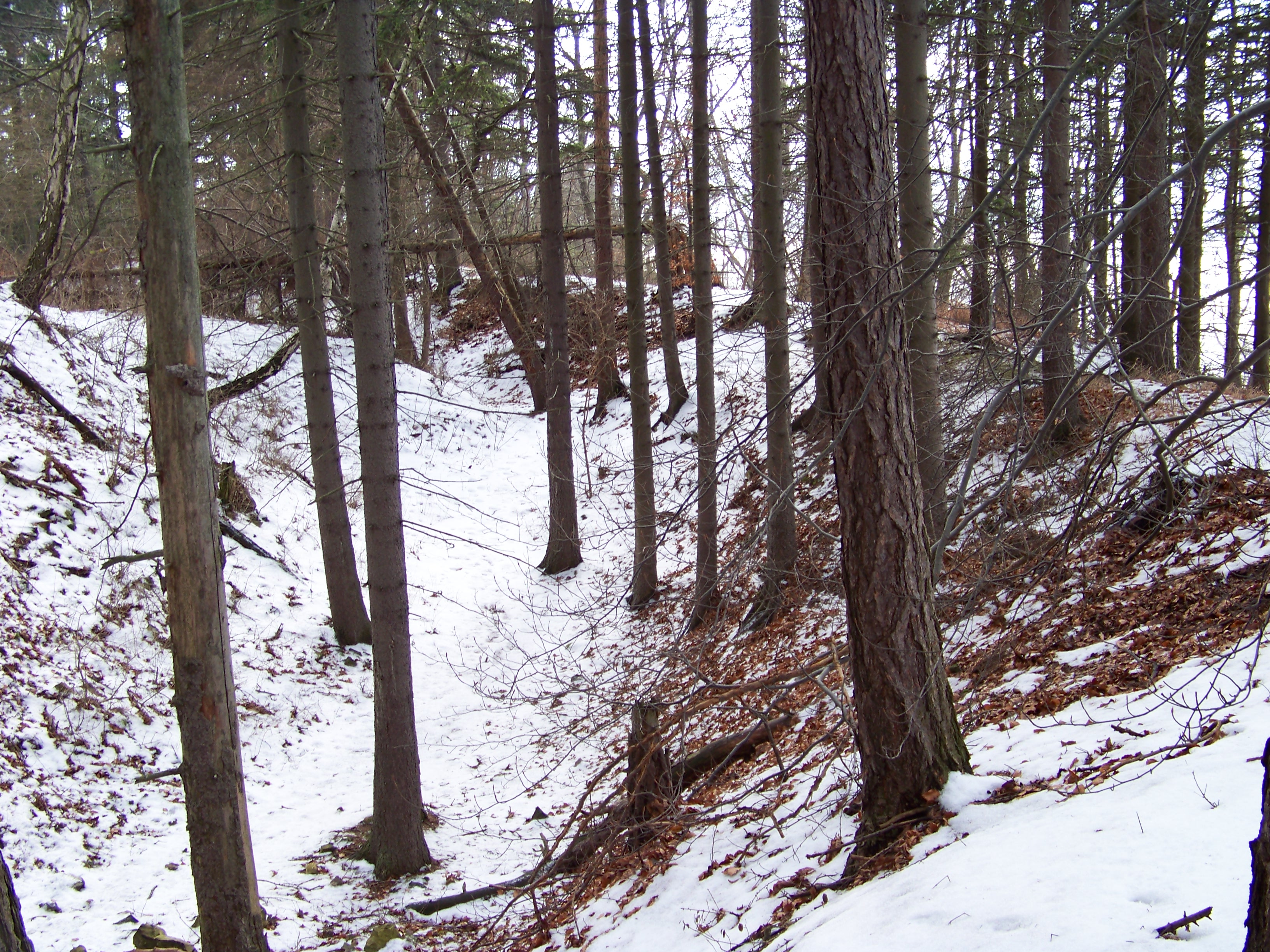 Mutějovice, Rakovník District, the Czech Republic. The ruin of Džbán Castle.